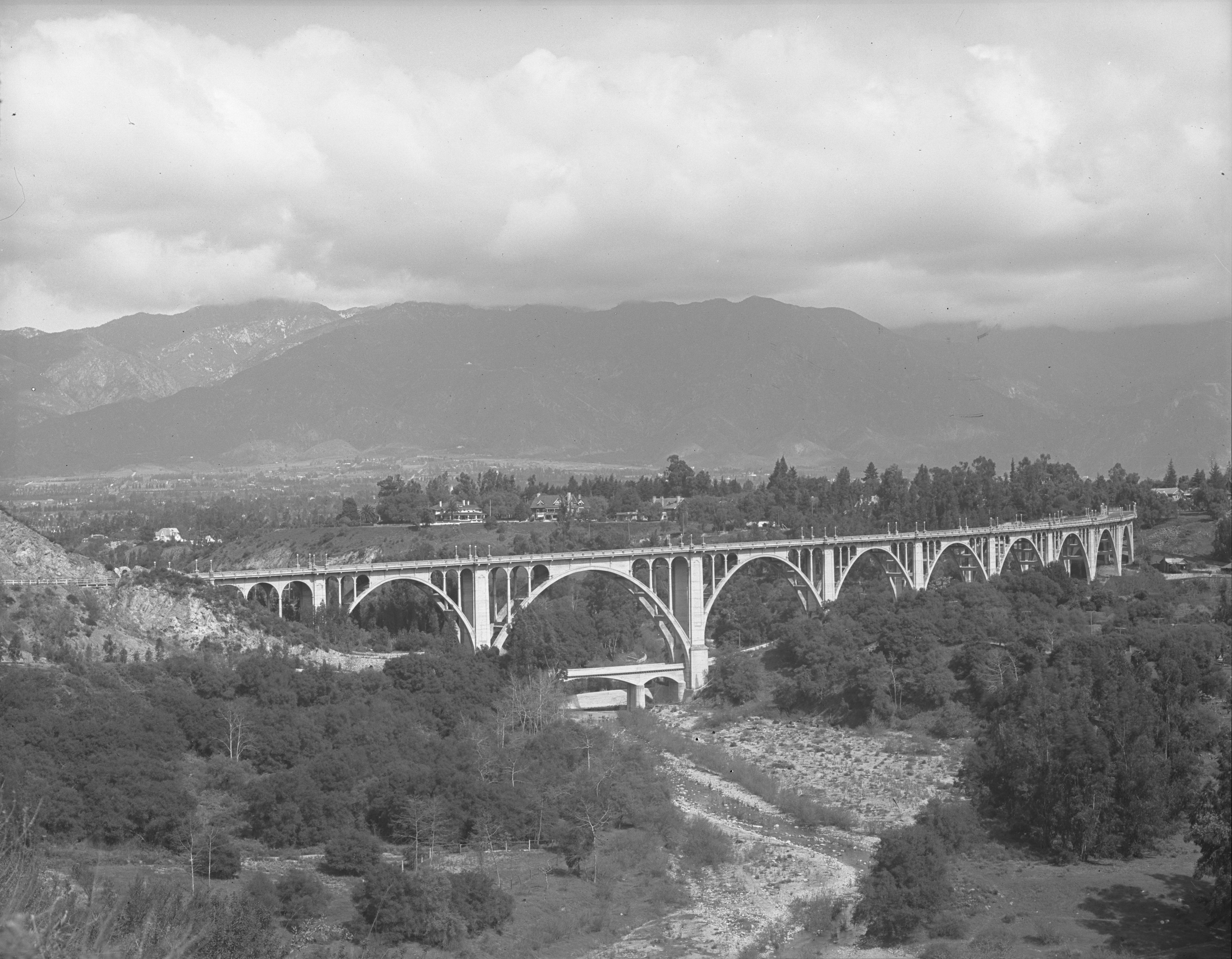 The Colorado Street Bridge over the Arroyo Seco (circa 1920). View of Pasadena beyond the Arroyo Seco, with Altadena in the foothills, and the San Gabriel Mountains rising above in the background. Located in Los Angeles County, Southern California.